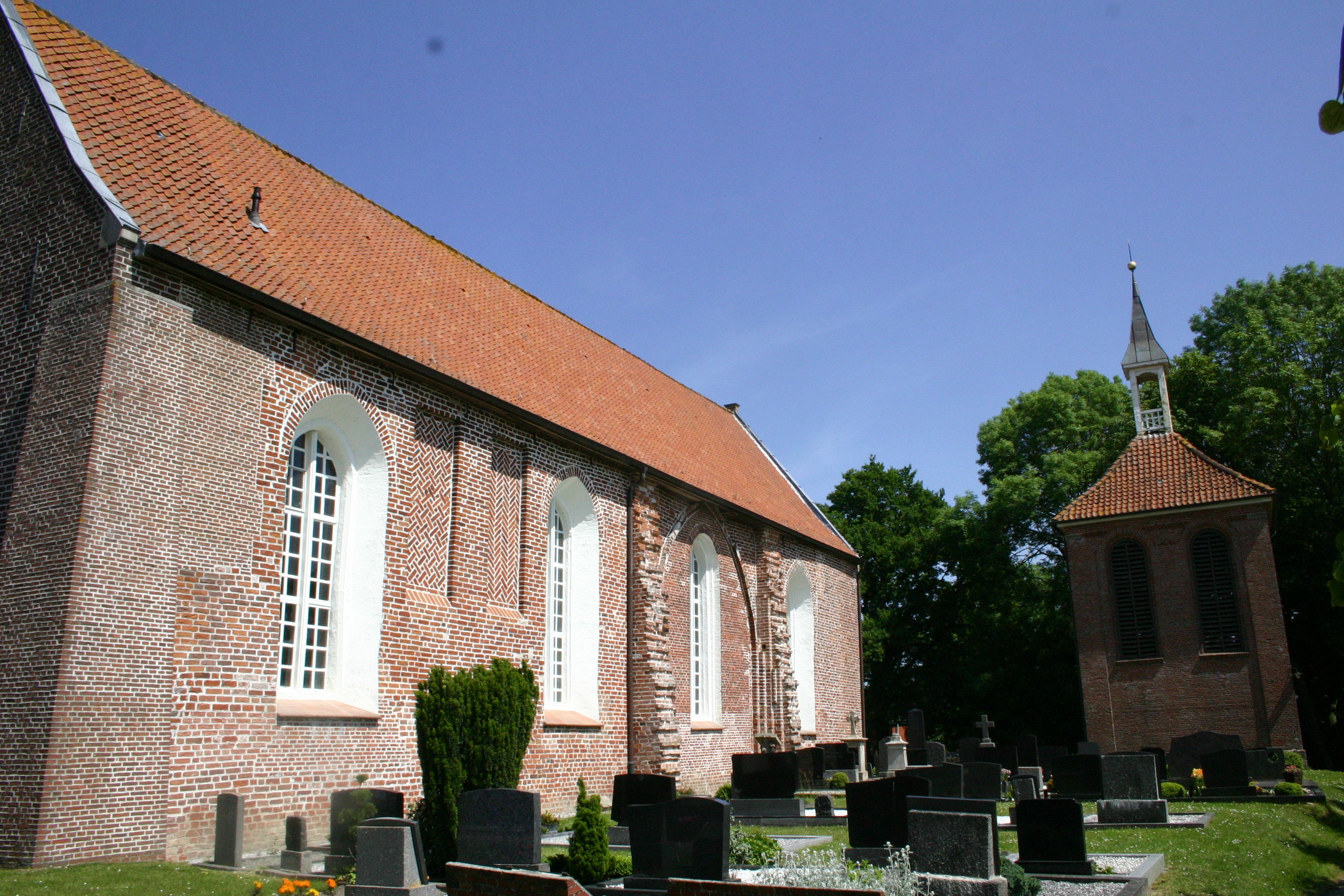 The Evangelical Reformed Saint Sebastian's Church in Hatzum (a locality of Jemgum), district of Leer, East Frisia, Lower Saxony, Germany, is owned and used by a Reformed congregation within the Evangelical Reformed Church – Synod of Reformed Churches in Bavaria and Northwestern Germany.